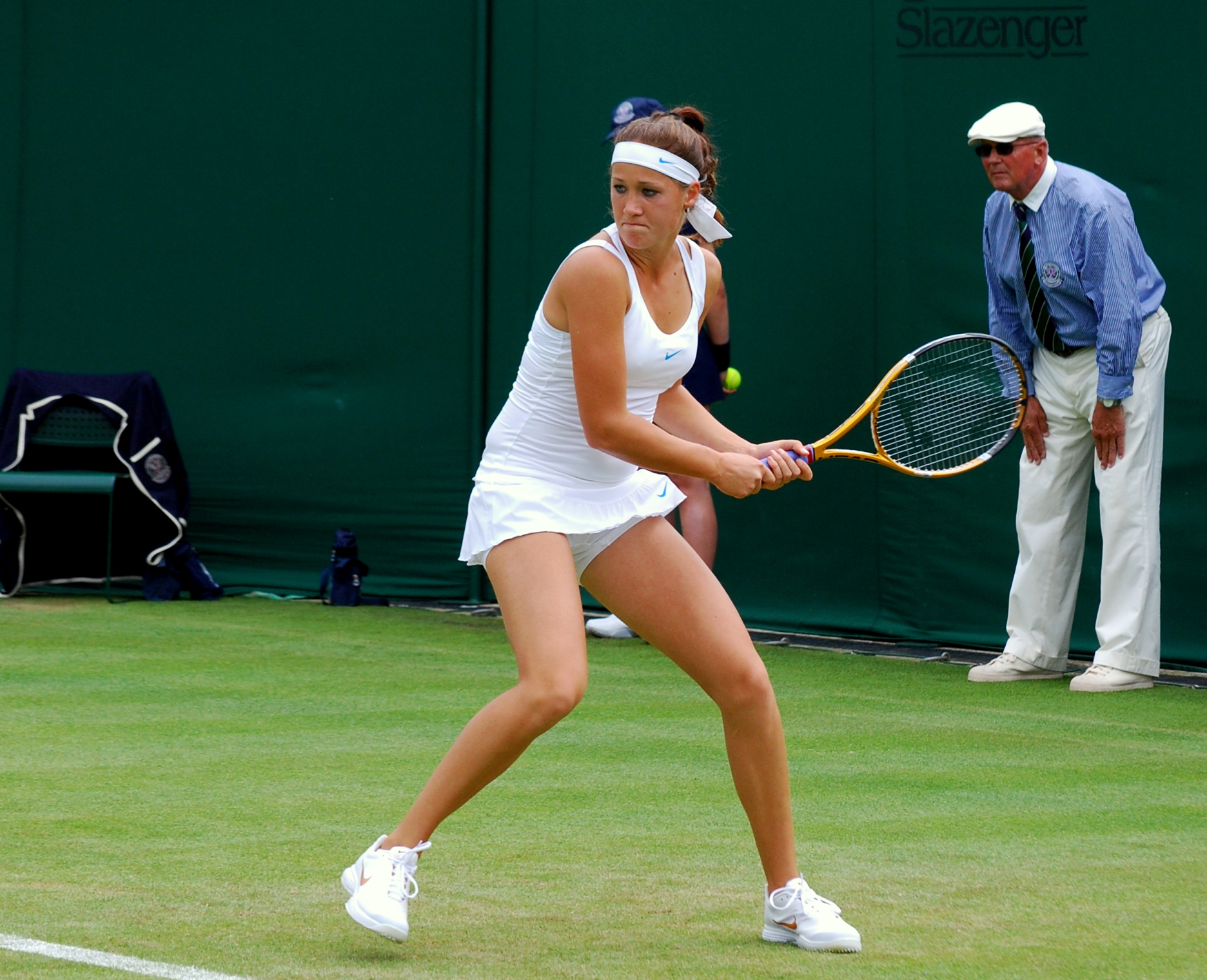 Day 2 of Wimbledon 2011.